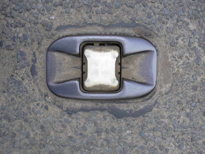 Photo taken by me on the B4194 north of Bewdley, 3 April 2006.